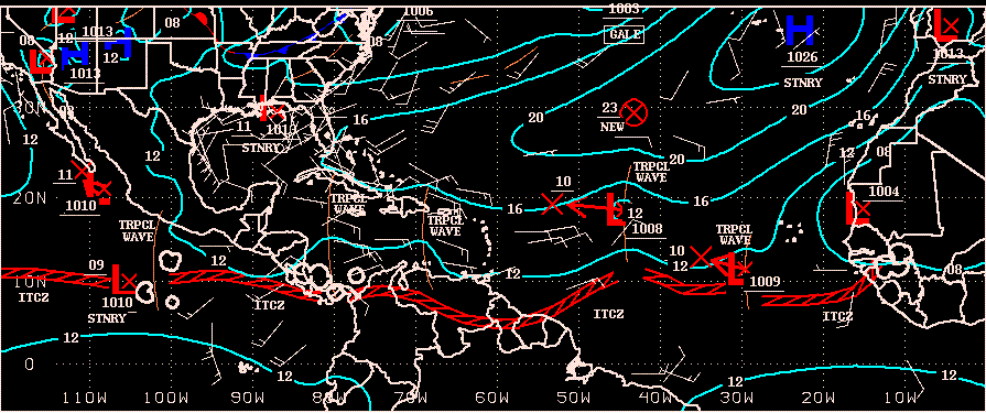 Tropical surface analysis : The red line represent thuderstorms in th Intertropical Convergence Zone. L stand from low pressure areas and H high pressure. Pressure is plotted every 4 mb. Tropical waves positions are identified by maroon thin line and text.